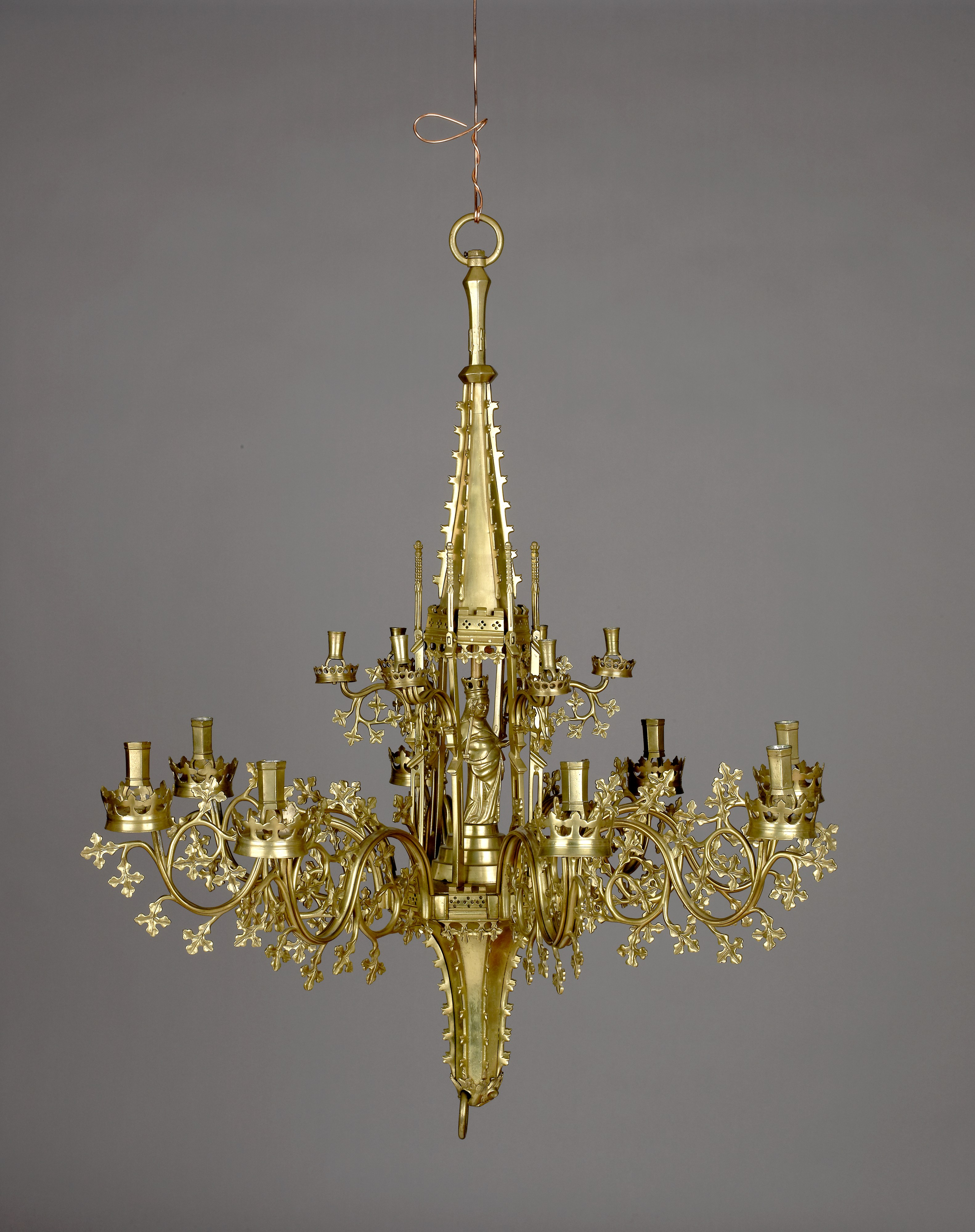 South Netherlandish, Dinant (?); Chandelier; Metalwork-Bronze